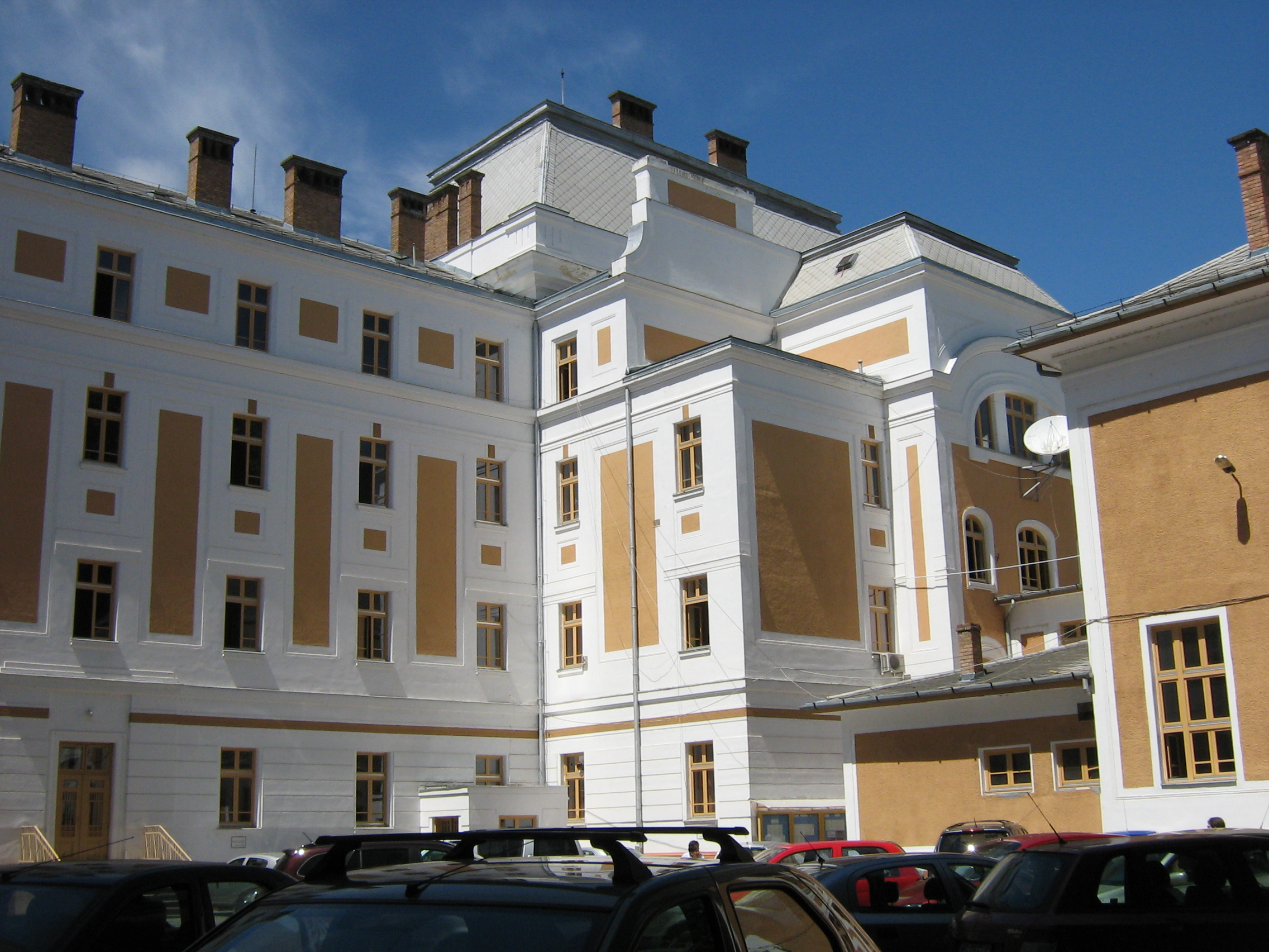 Main building of the University of Medicine and Pharmacy Târgu Mureş